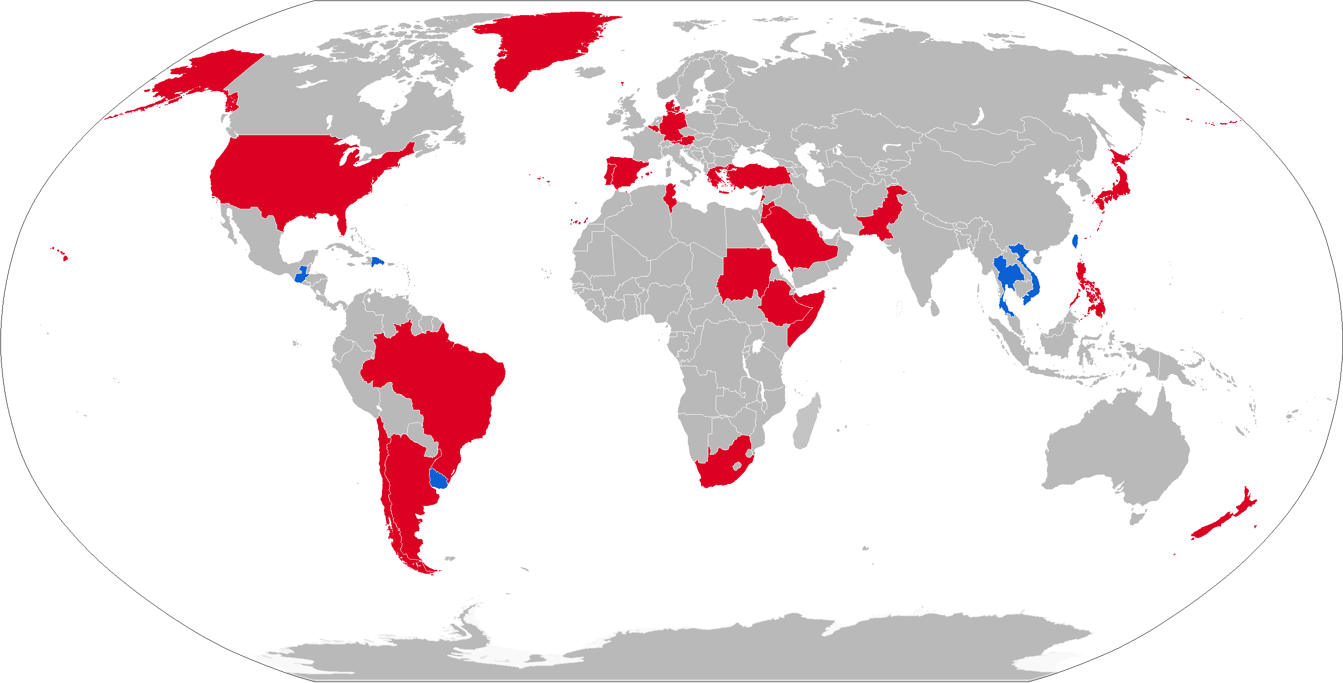 Map of M41 operators in blue with former operators in red